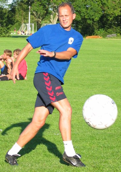 Bent Christensen as head coach for Værløse Boldklub